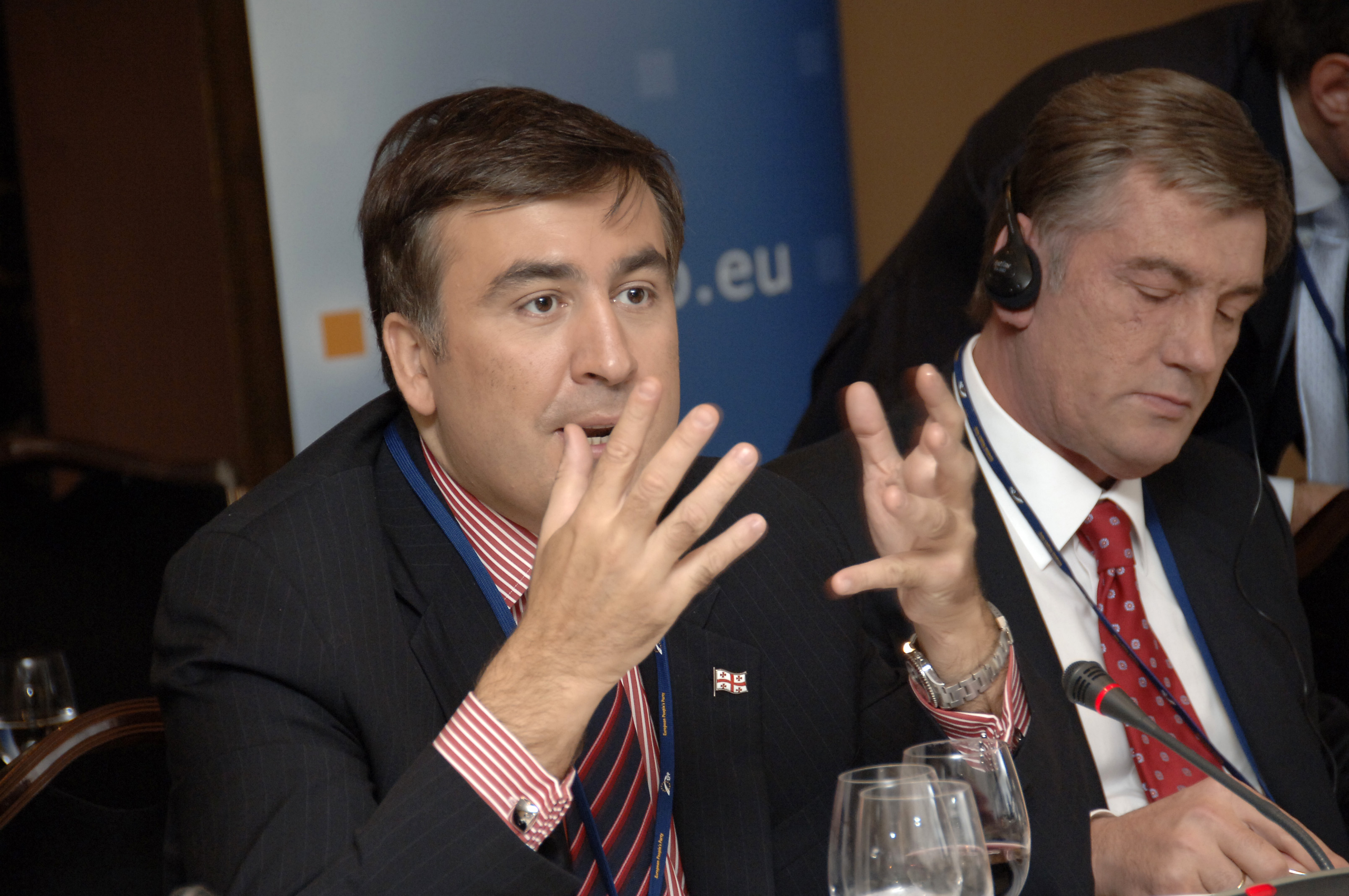 EPP Summit Lisbone 18 October 2007